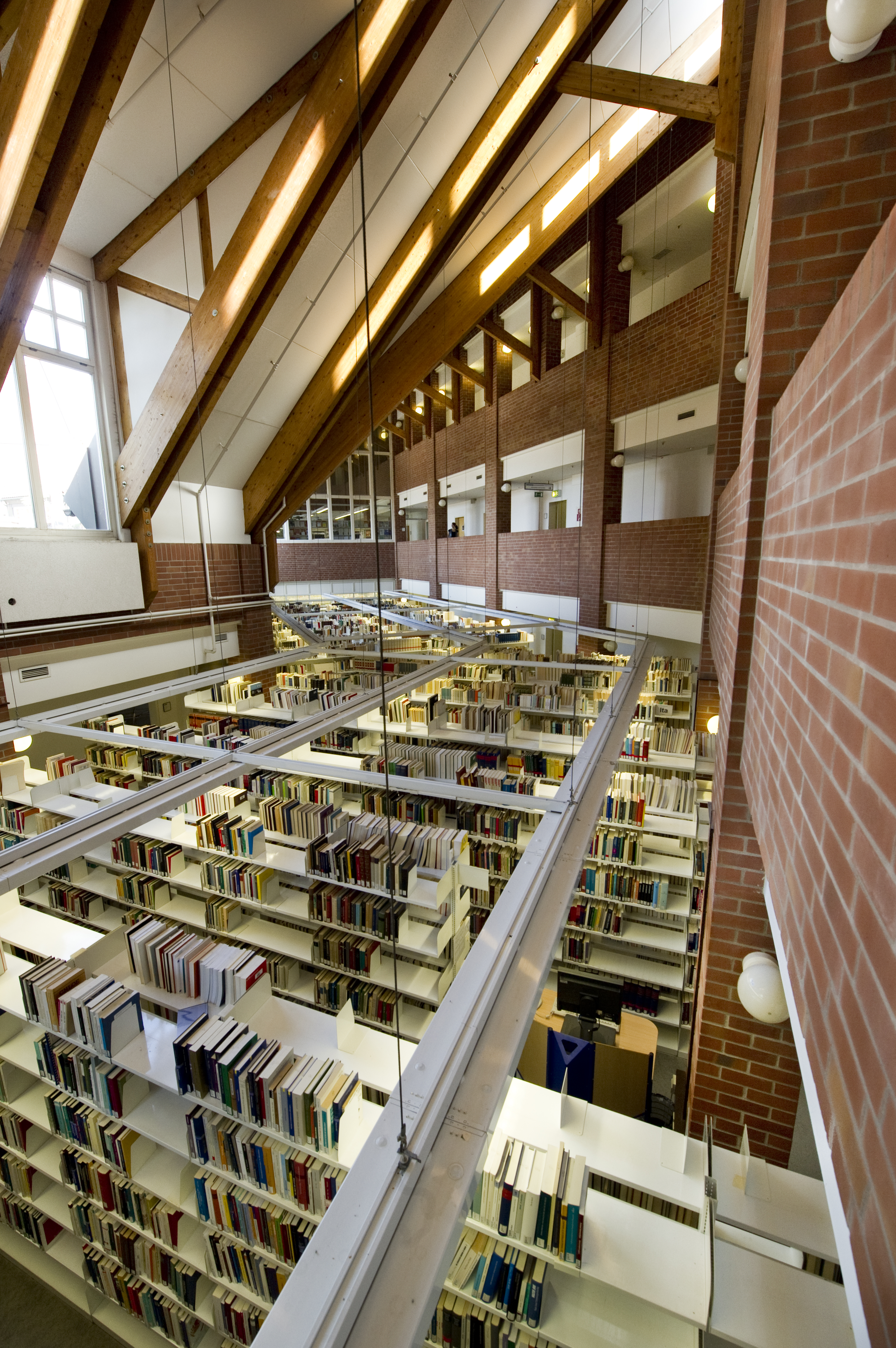 university library kassel